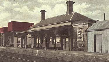 Scone Railway Station - postcard Dated: c. 31/12/1900 Digital ID: 17420_a014_a014000784 Rights: We'd love to hear from you if you use our photos. Many other photos in our collection are available to view and browse on our website using Photo Investigator.